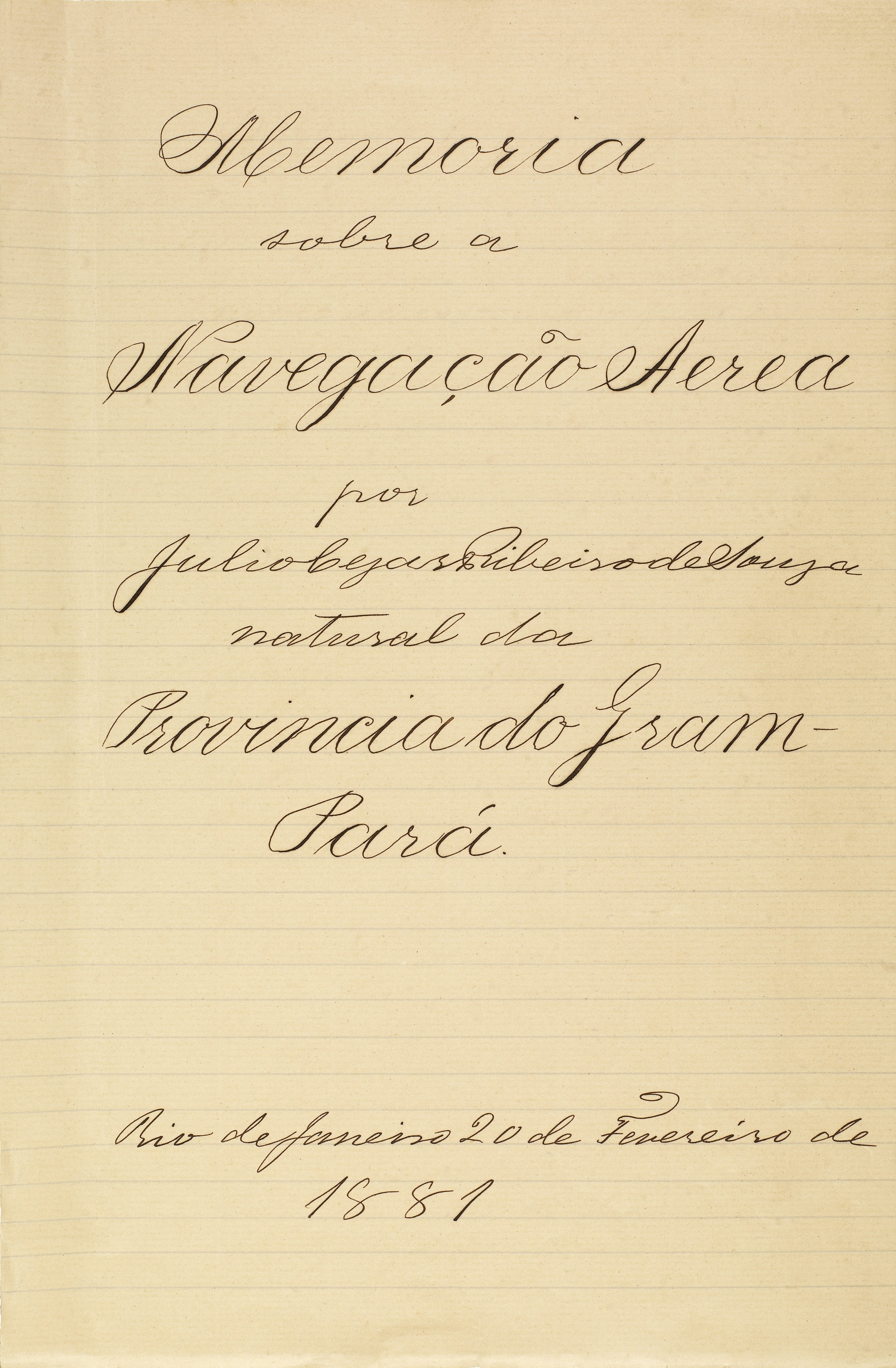 Manuscript by Júlio Cézar Ribeiro de Souza about Aeronautics